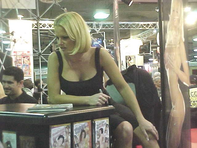 At CES January 6-9, 2000